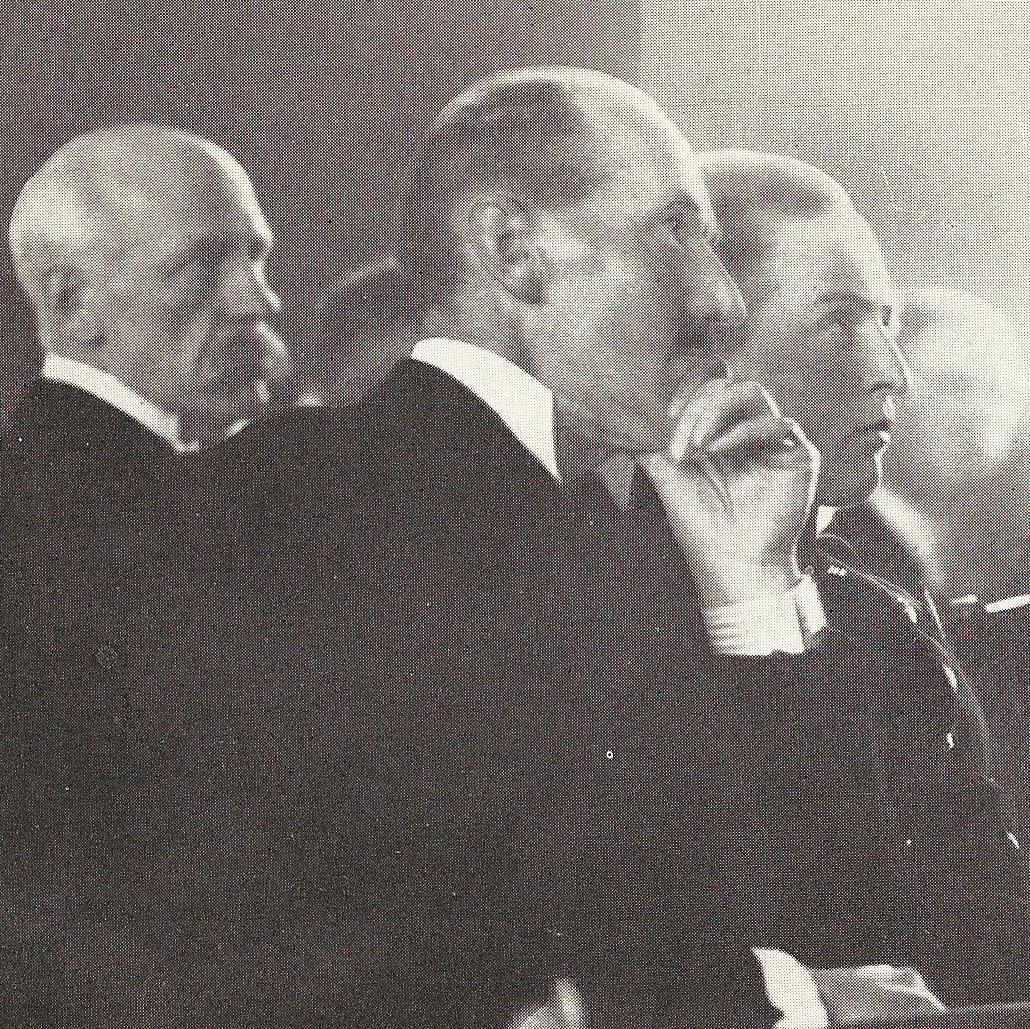 The picture was taken by a unknown photographer for Fridtjof Nansen in 1922. Nansen later included the picture in his book he wrote in 1929 – but one year before he died. From left: Fridtjof Nansen, King Haakon VII. of Norway, Crownprince Olav (later King Olav V. of Norway).